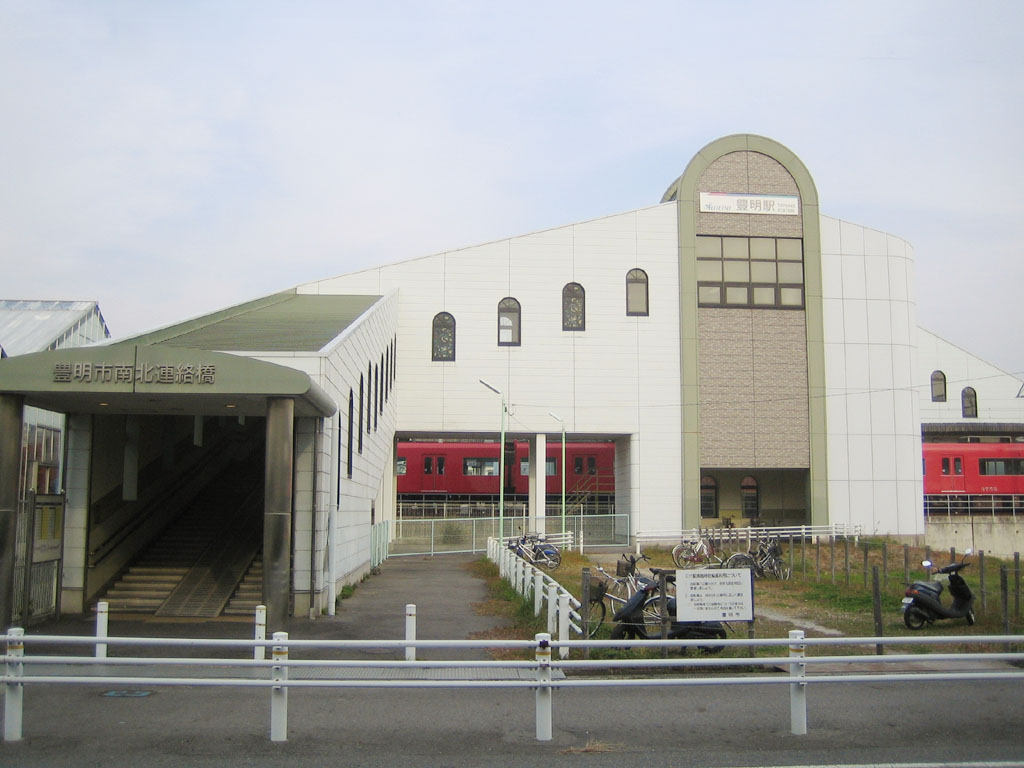 Toyoake Station (豊明駅), in Toyoake, Aichi, Japan